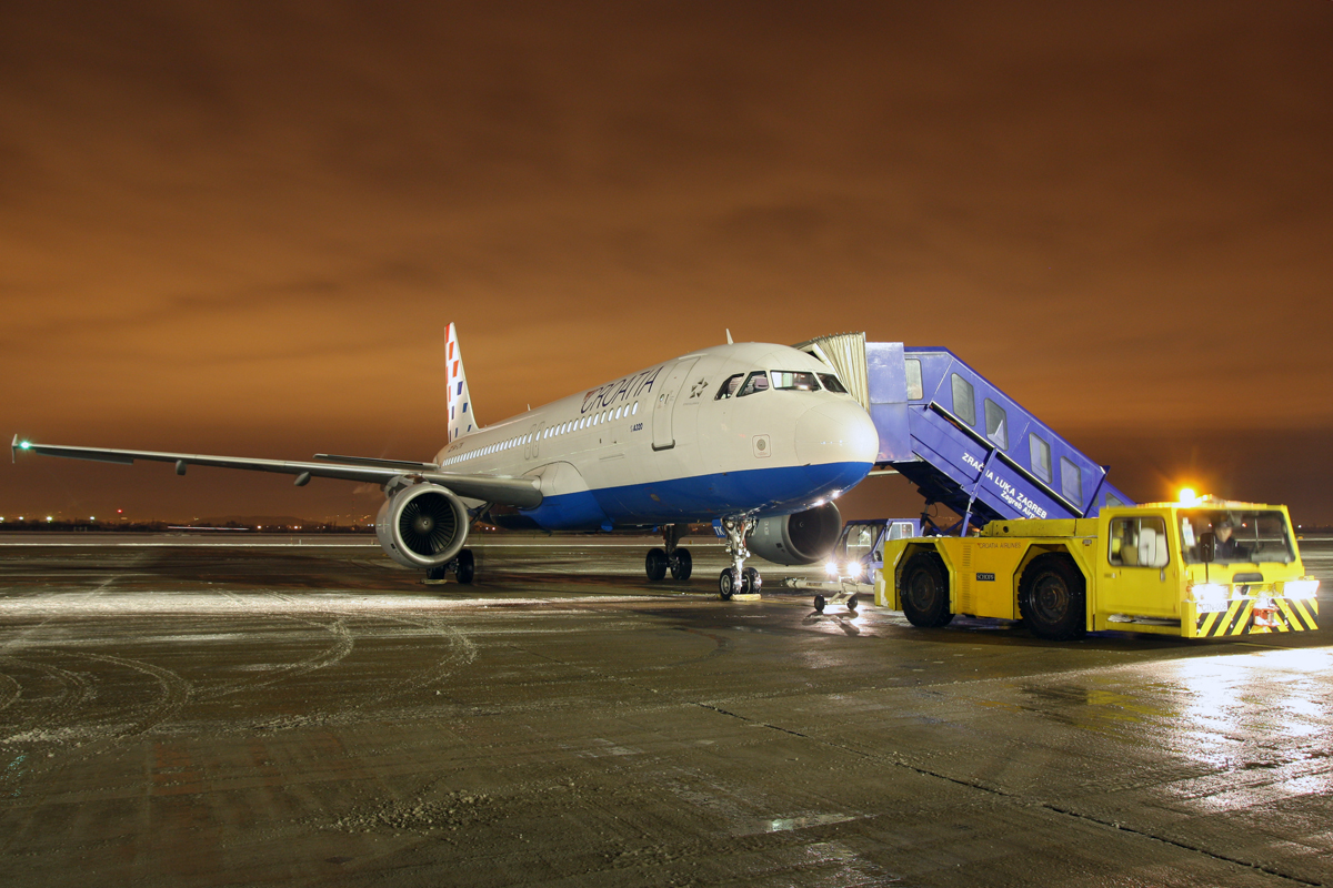 Airbus A320 Croatia Airlines